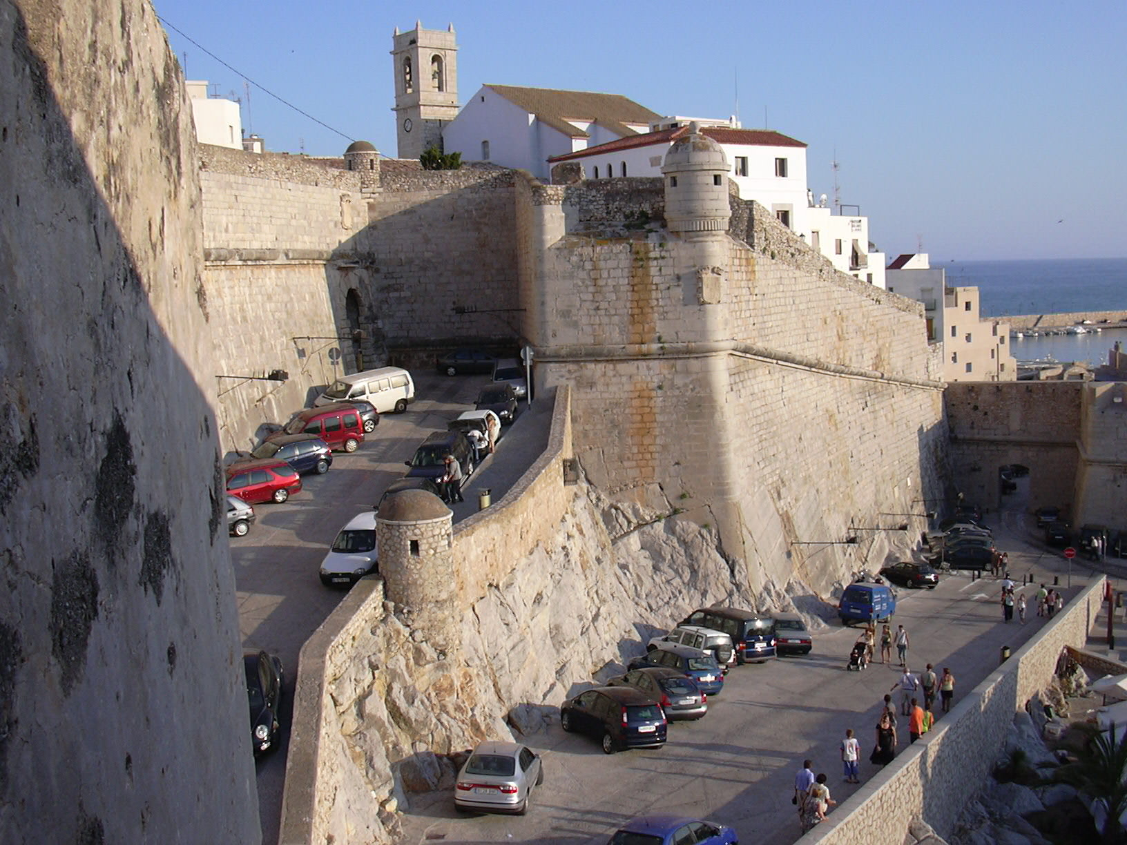 Entrance in Peñíscola's Walls.